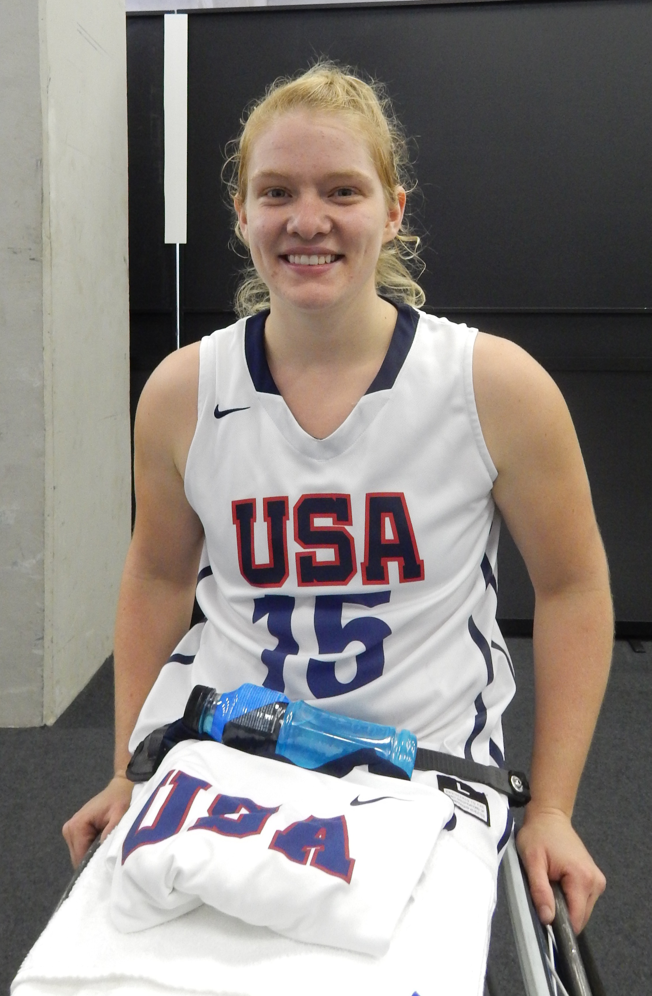 American wheelchair basketball player Rose Hollermann at the 2016 Paralympic Games in Rio de Janeiro